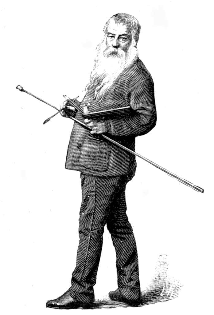 picture of Ernest Meissonier